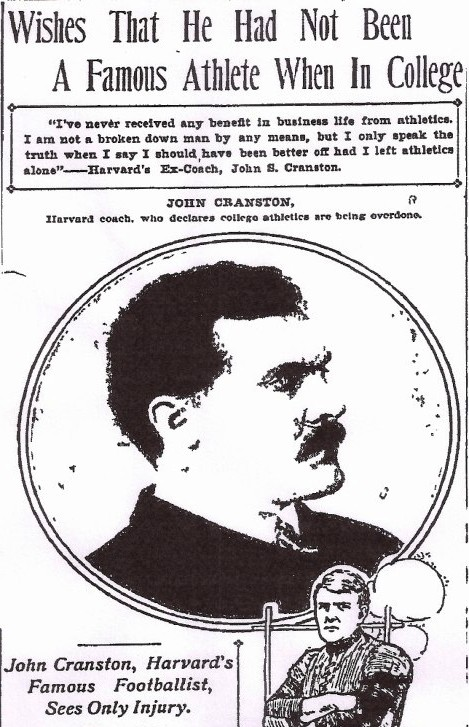 Photograph of John S. Cranston